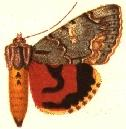 PLATE CC.